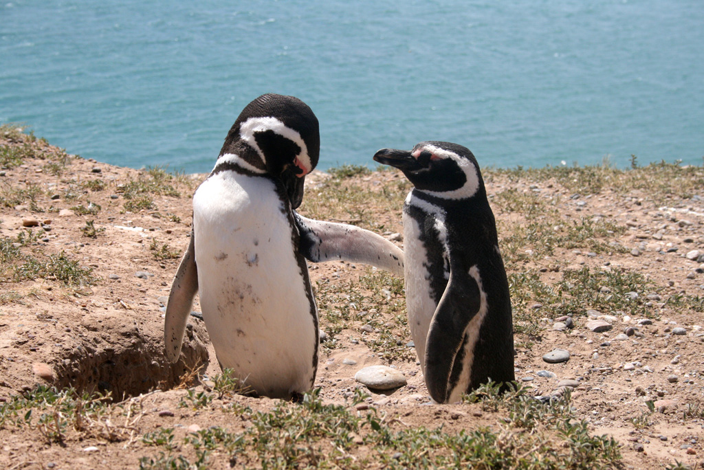 Magellan penguins. Valdes Peninsula, Patagonia (Argentina).